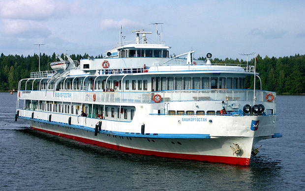 "BASHKORTOSTAN" on Volga river in Sosenki (2005). Project 305, type Dunay